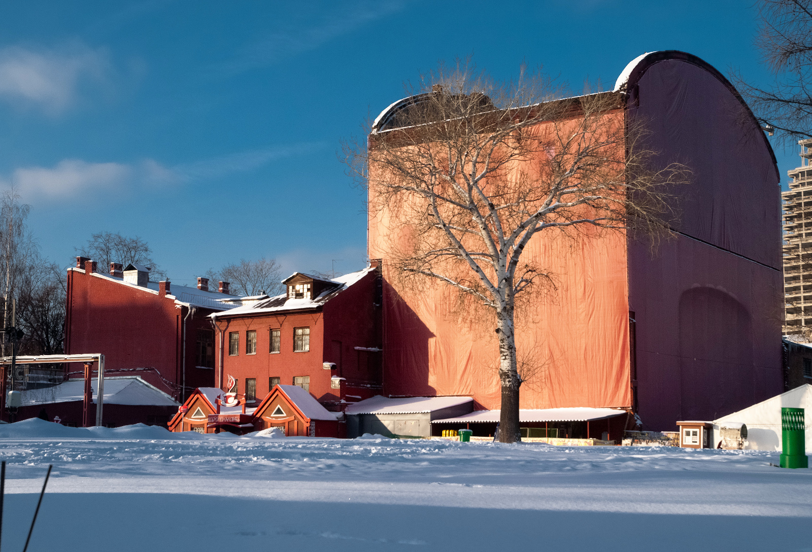 Hermitage Garden in Karetny Riad Street, Moscow. The big red hulk housed the Diagilev Club. This luxury outfit burnt down in February 2008.